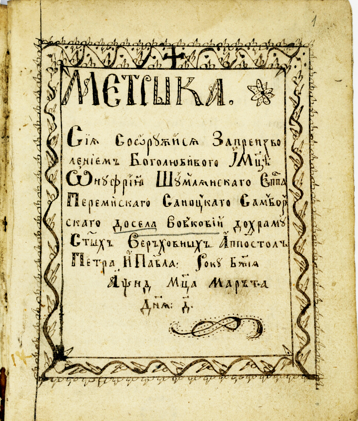 The Baptism Book from Greek Catholic church of the village of Vovkovyia (Wołkowyja). Records of the baptism from 1754 to 1775. Title page